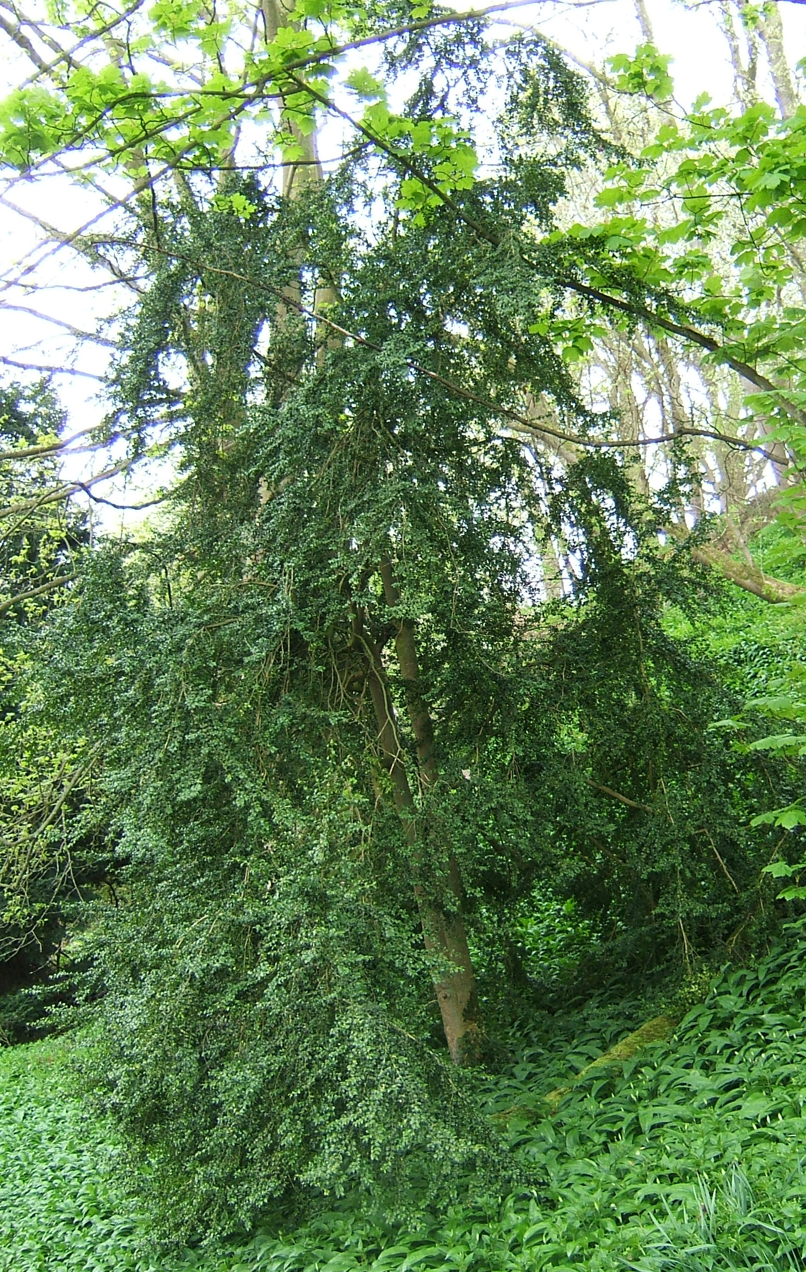 Buxus sempervirens, old cultivated specimen with natural shape, Allenbanks, Northumberland, UK; 04 May 2006